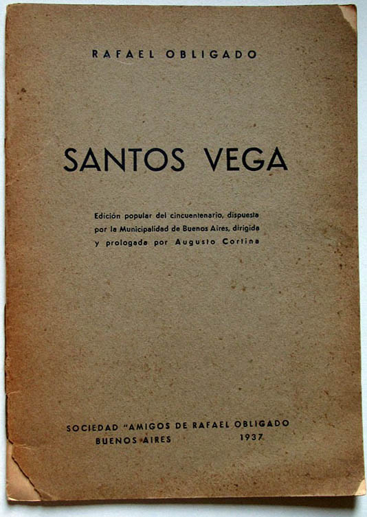 Cover to Santos Vega, a gauchesco poem by Rafael Obligado. Edited by the Sociedad Amigos de Rafael Obligado, in Buenos Aires.